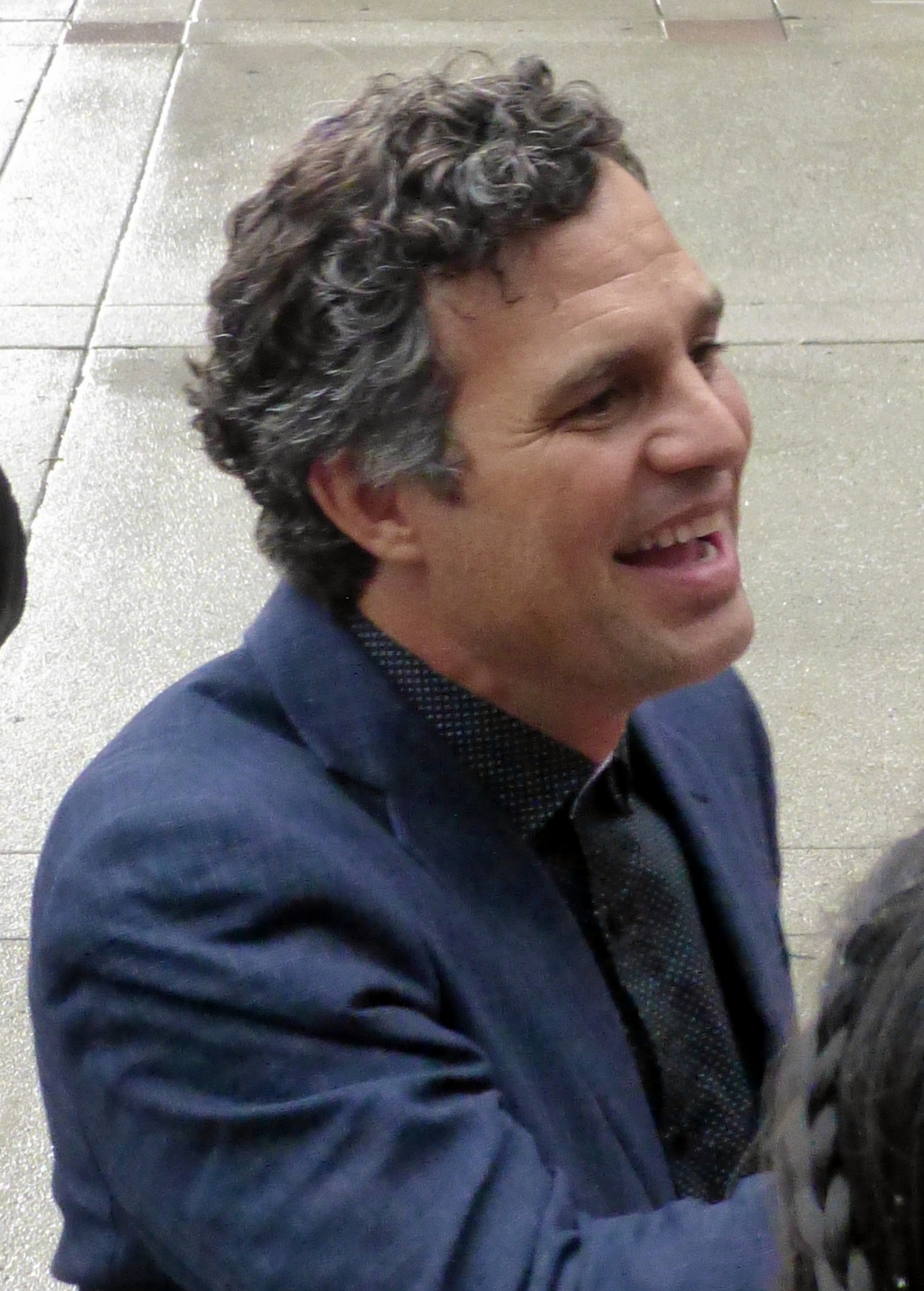 Mark Ruffalo at the premiere of Infinitely Polar Bear, Toronto Film Festival 2014